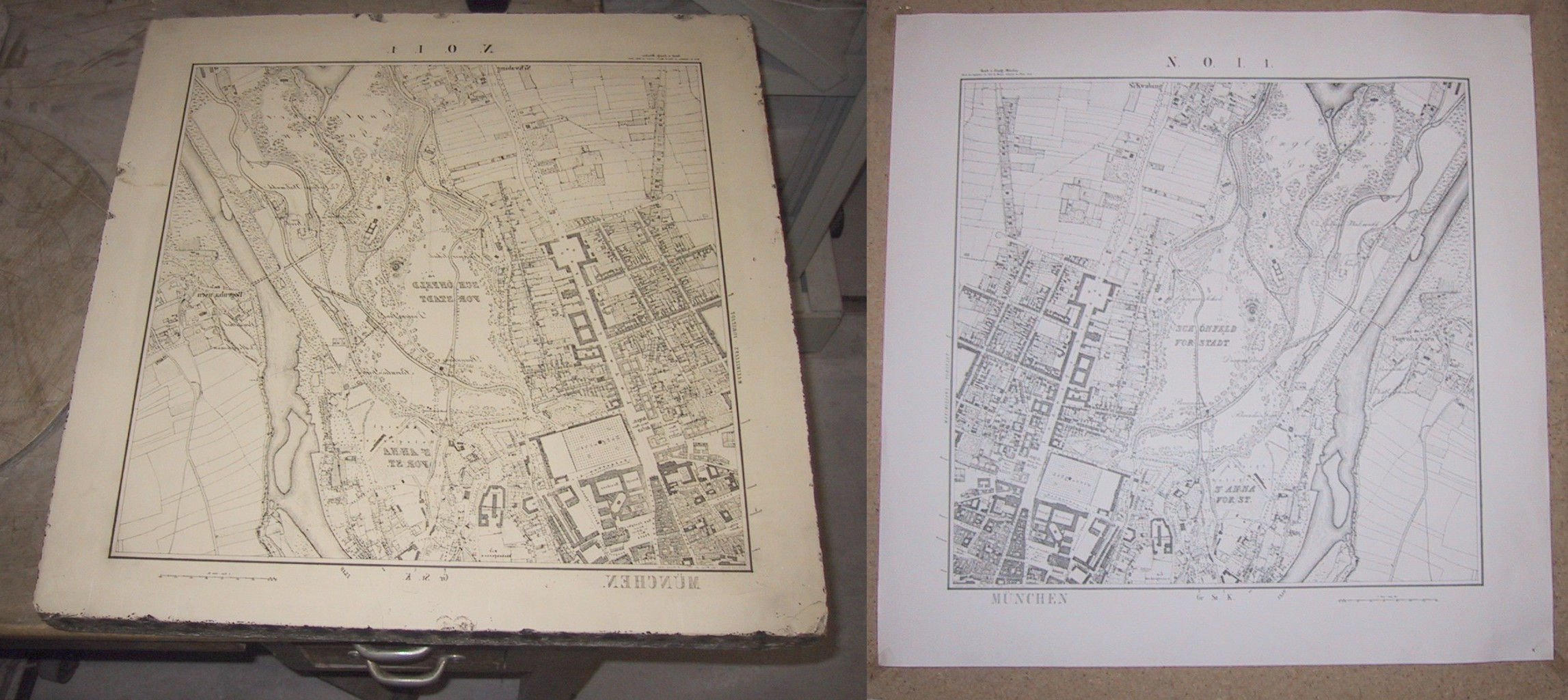 Two pictures showing the negative lithography stone and the resulting positive print, with an old map of Munich. This is the origin map, with the north tower of the Frauenkirche in the lower corner. All other maps of this series are referenced to this corner. The map also shows the Hofgarten and the Englischer Garten. Due to the nature of the printing process, the negative shows everything in reverse. Picture taken as part of the Lange Nacht der Museen in Munich